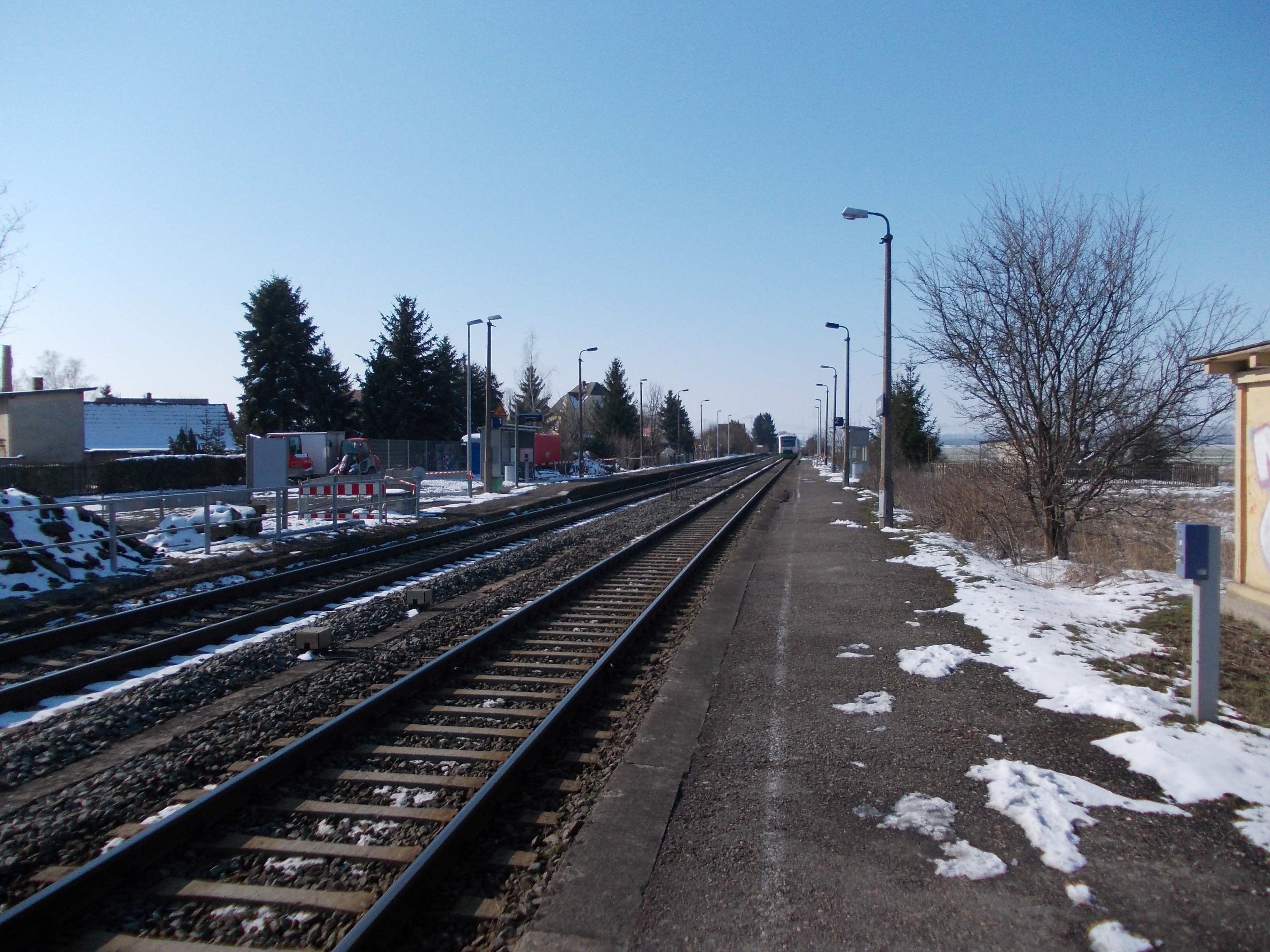 Grossdalzig train station (Zwenkau, Leipzig district, Saxony)